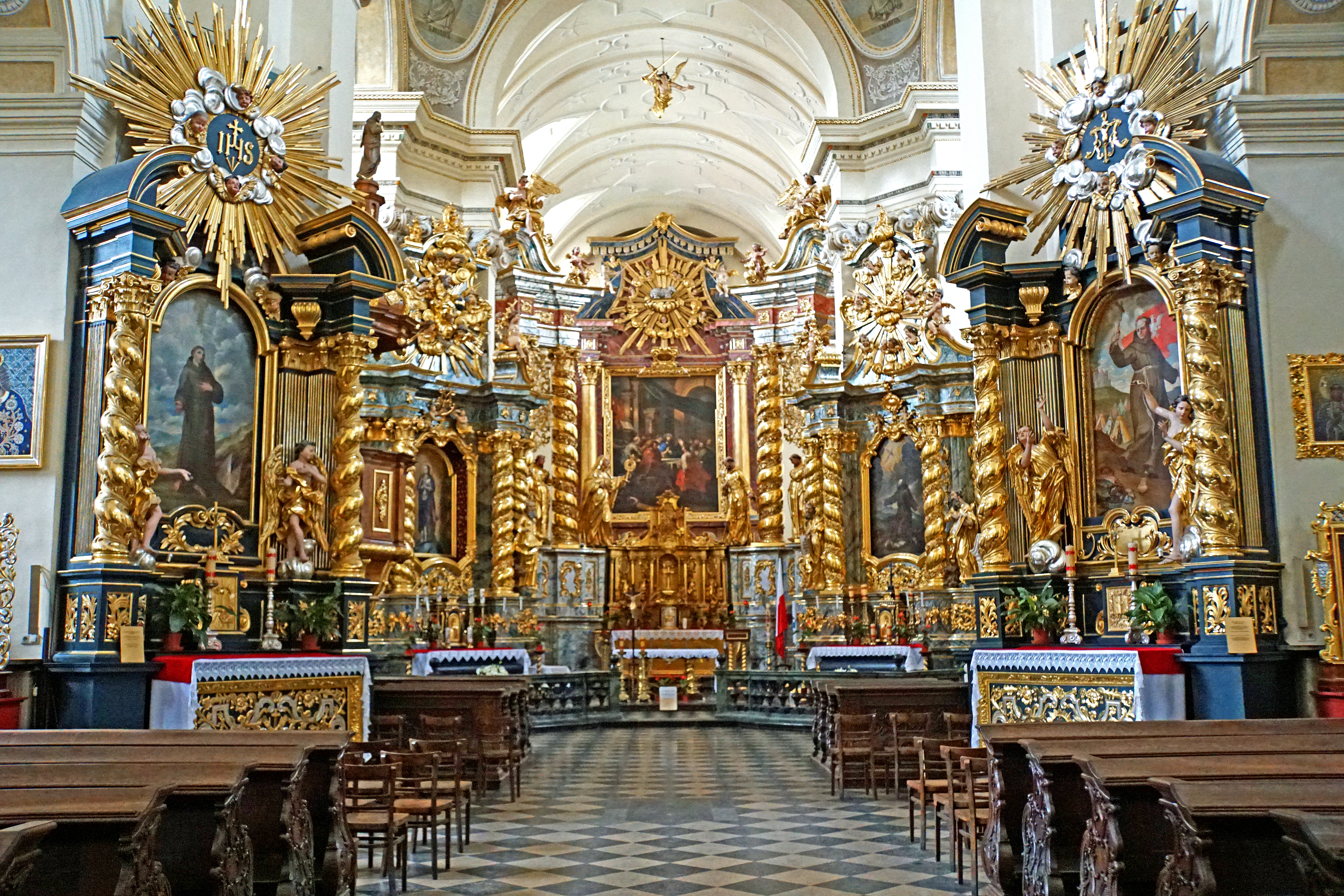 PLEASE, NO invitations or self promotions, THEY WILL BE DELETED. My photos are FREE to use, just give me credit and it would be nice if you let me know, thanks. In 1655, Bernardine Church was burnt to the ground on the orders of Swedish invading forces. The church was rebuilt and is now one of the loveliest churches in Krakow.